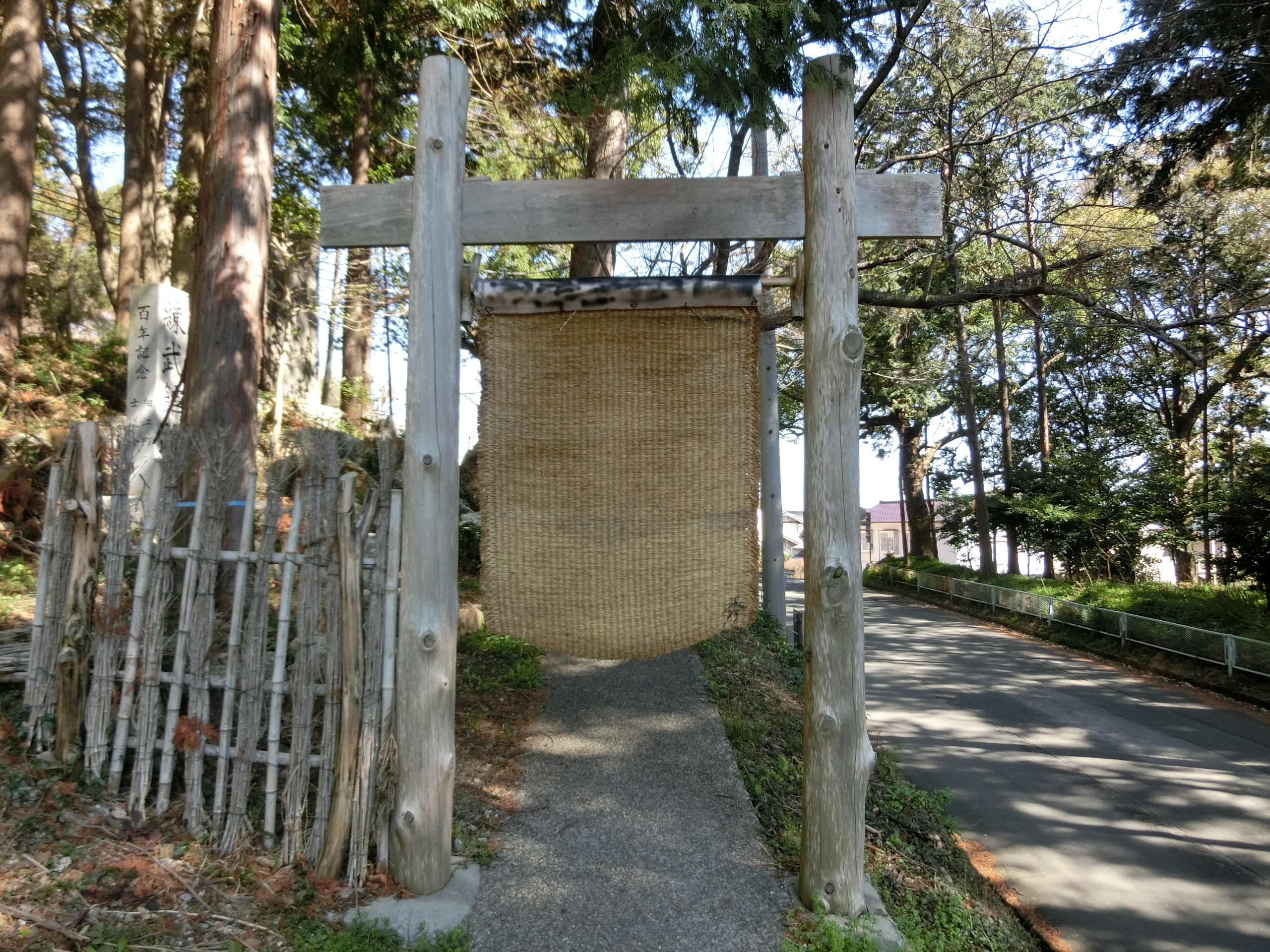 Kiga no Inu-kuguri